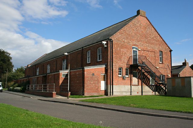 The Stanhope Hall, formerly the Town Hall and operated by the council who had offices at the site, this building was built in 1901 as a 'Drill Hall' and saw use by the military in both world wars. It is now a community owned amenity and used for a variety of functions. The single storey attachment to the side of the hall was an indoor rifle range.